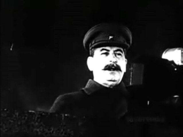 Still from Moscow Strikes Back, Soviet documentary of the Battle of Moscow. Directed by Ilya Kopalin. 1 of 4 films to win the 1943 Academy Award for Best Documentary.